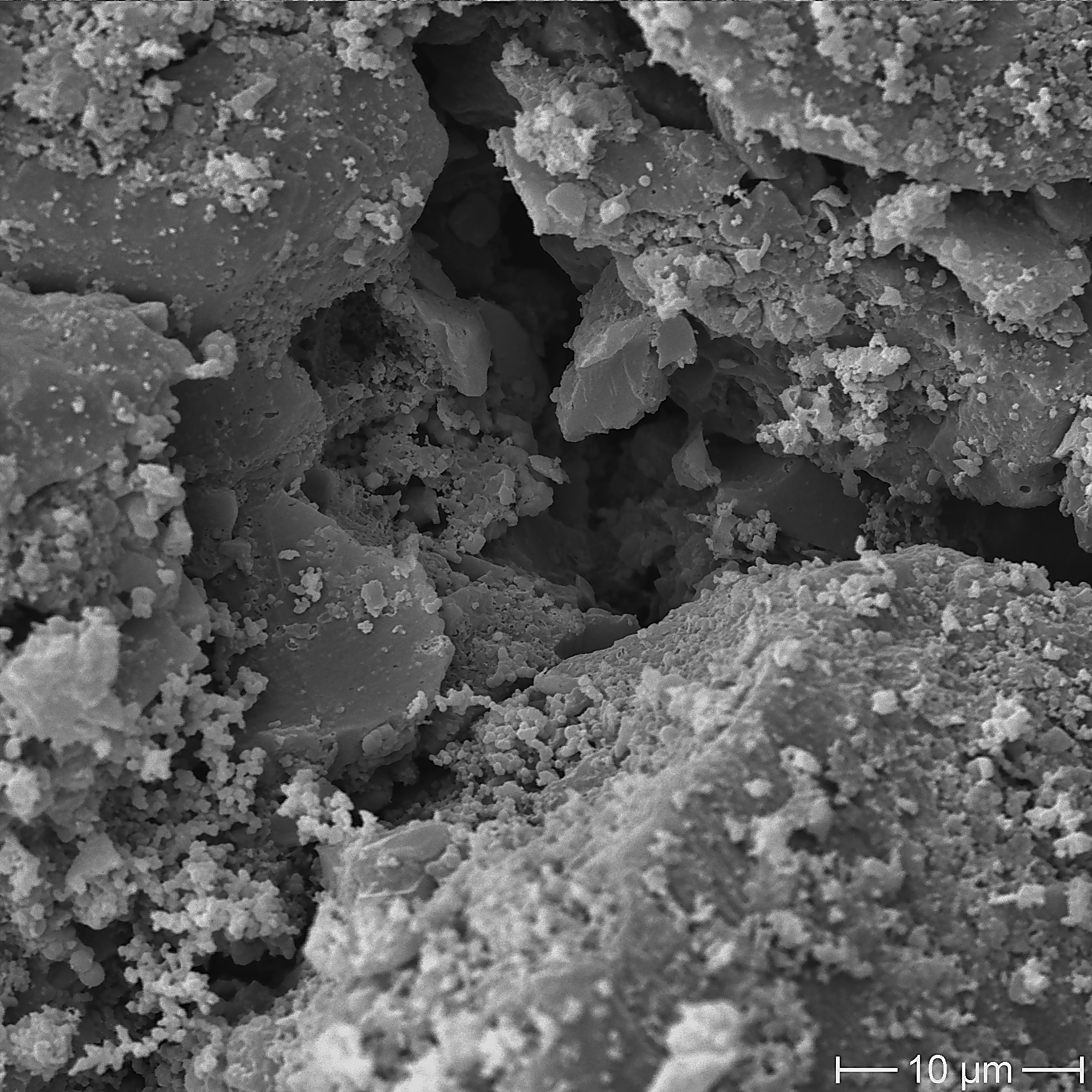 Scanning electron microscope (SEM) photo of activated charcoal